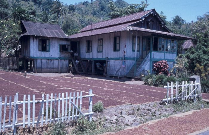 Drying cloves at the yard of a house